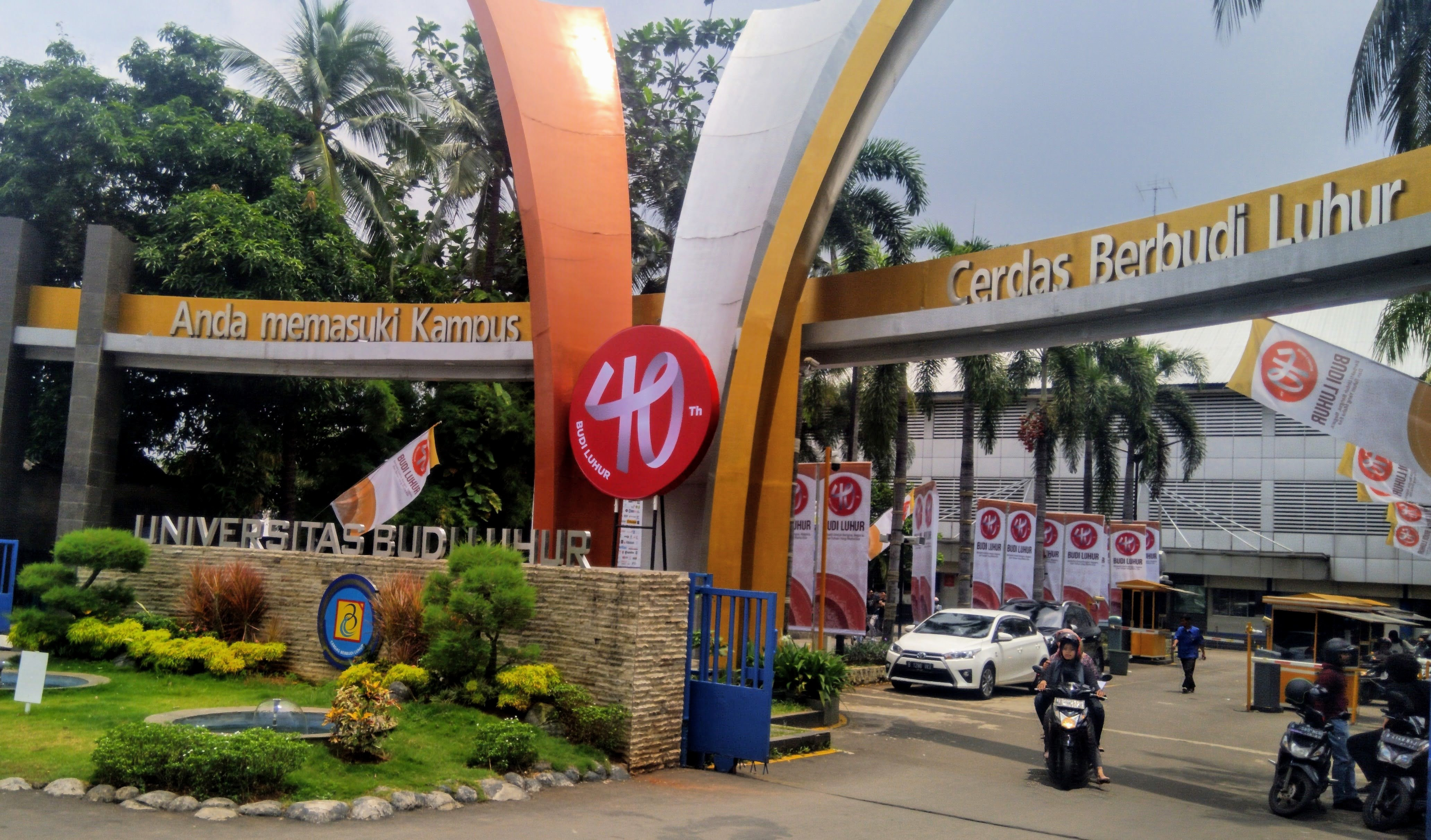 The front gate of Budi Luhur University, March 2019